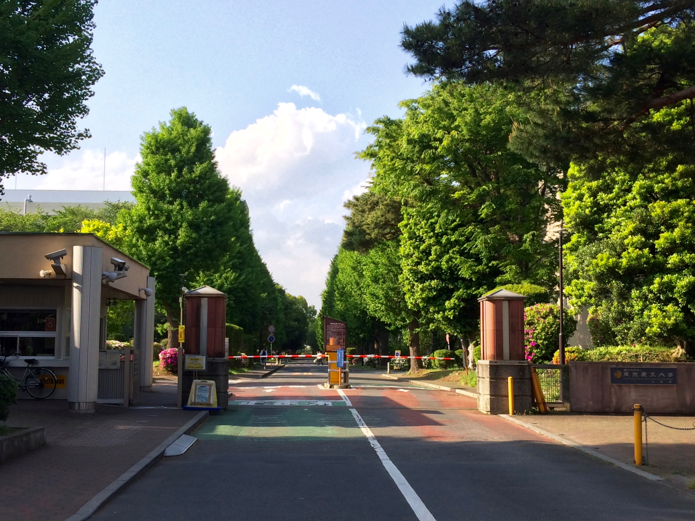 Main Gate of Koganei Campus, Tokyo University of Agriculture and Technology